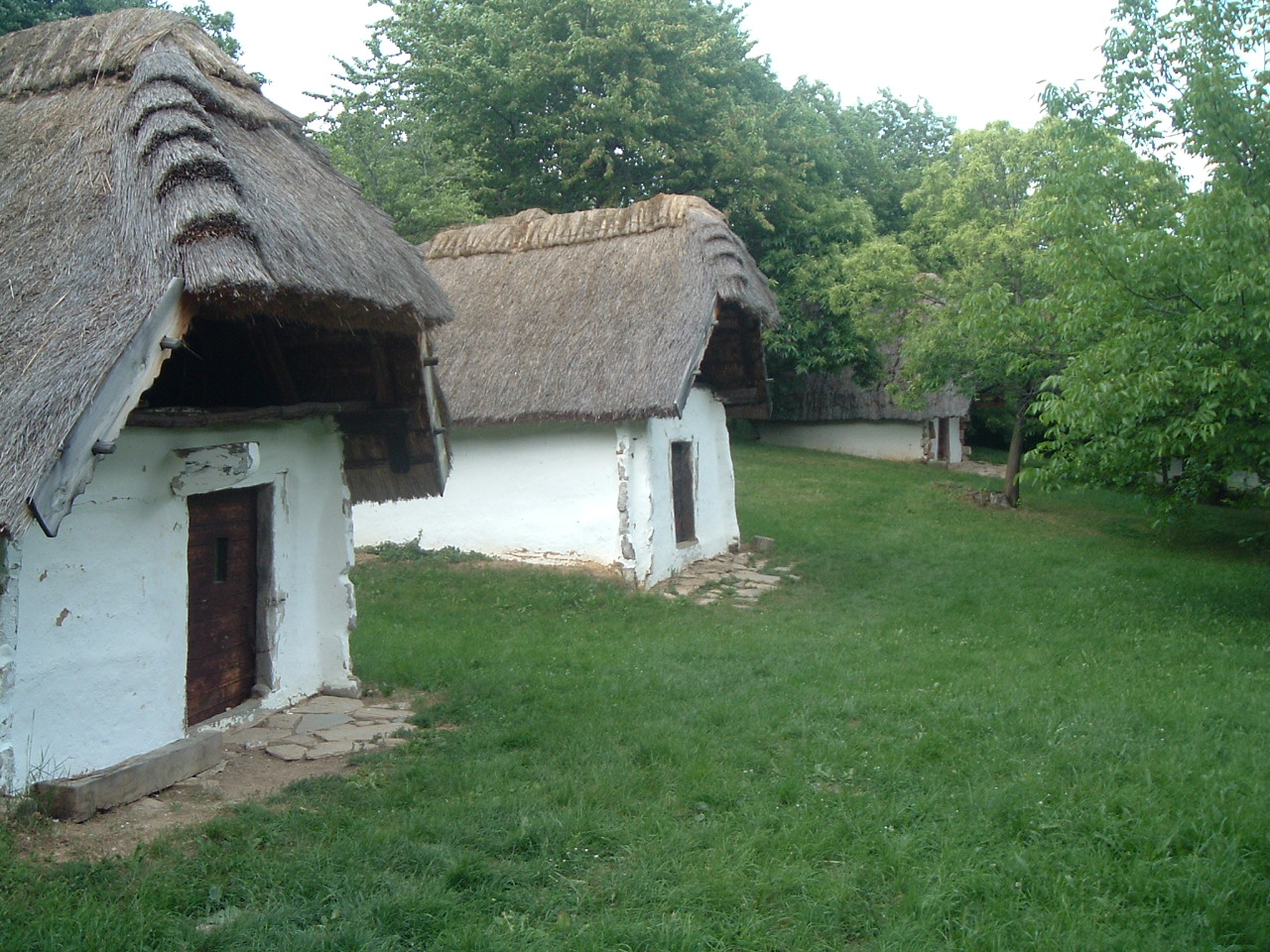 Monument cellars Cák, Hungary